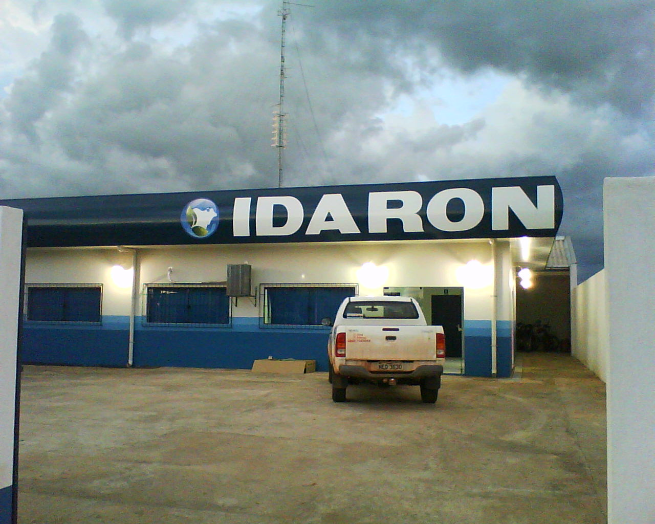 Local Unit of IDARON in the municipality of West Seatpost